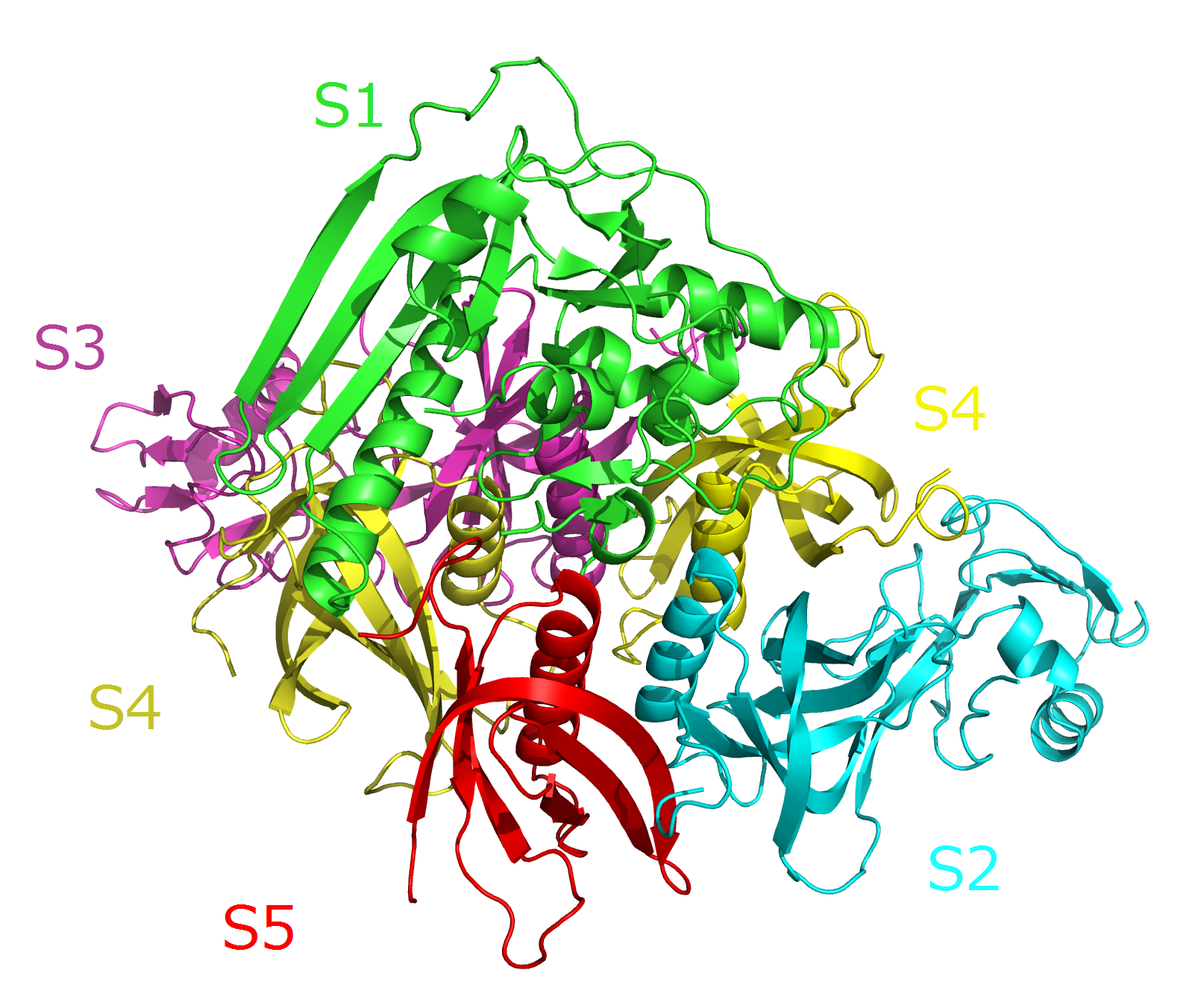 Cartoon representation of the molecular structure of pertussis toxin. It is composed of 5 kinds of subuints. S1: green S2: cyan S3: purple S4: yellow (double) S5: red This file was created from pdb file id = 1pdb.